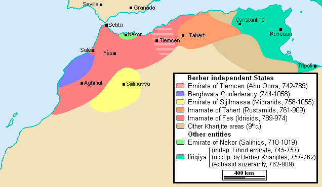 Morocco and the Maghreb after the Berber Revolt, own made map based on : Georges Duby, Atlas Historique Mondial, Ed. Larousse (2000), pp.220 & 224, ISBN:2702828655